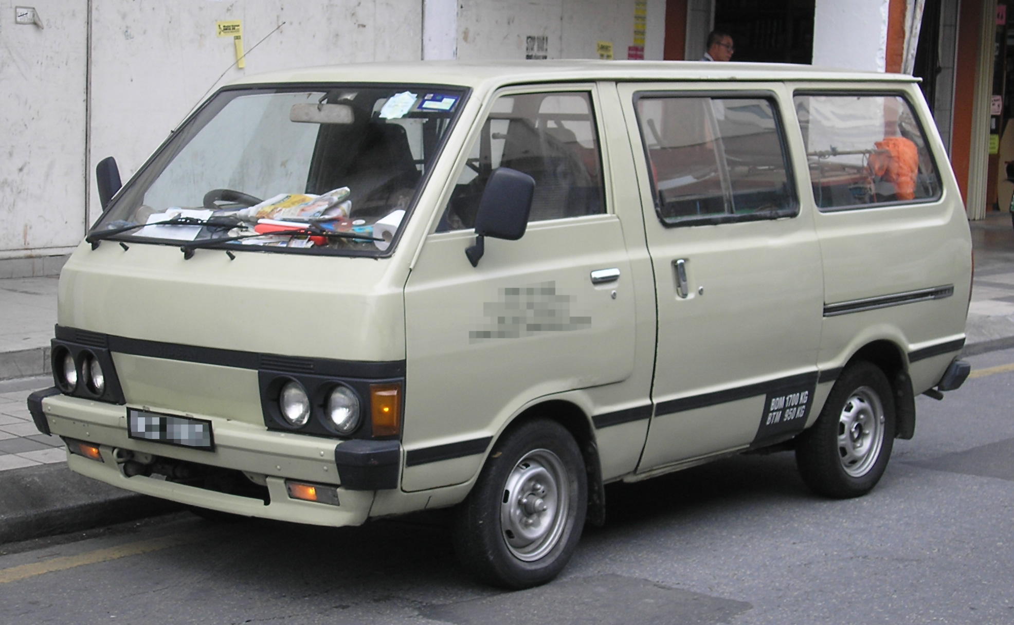 Front-side shot of a first generation Nissan Vanette C120, in central Kuala Lumpur, Malaysia.